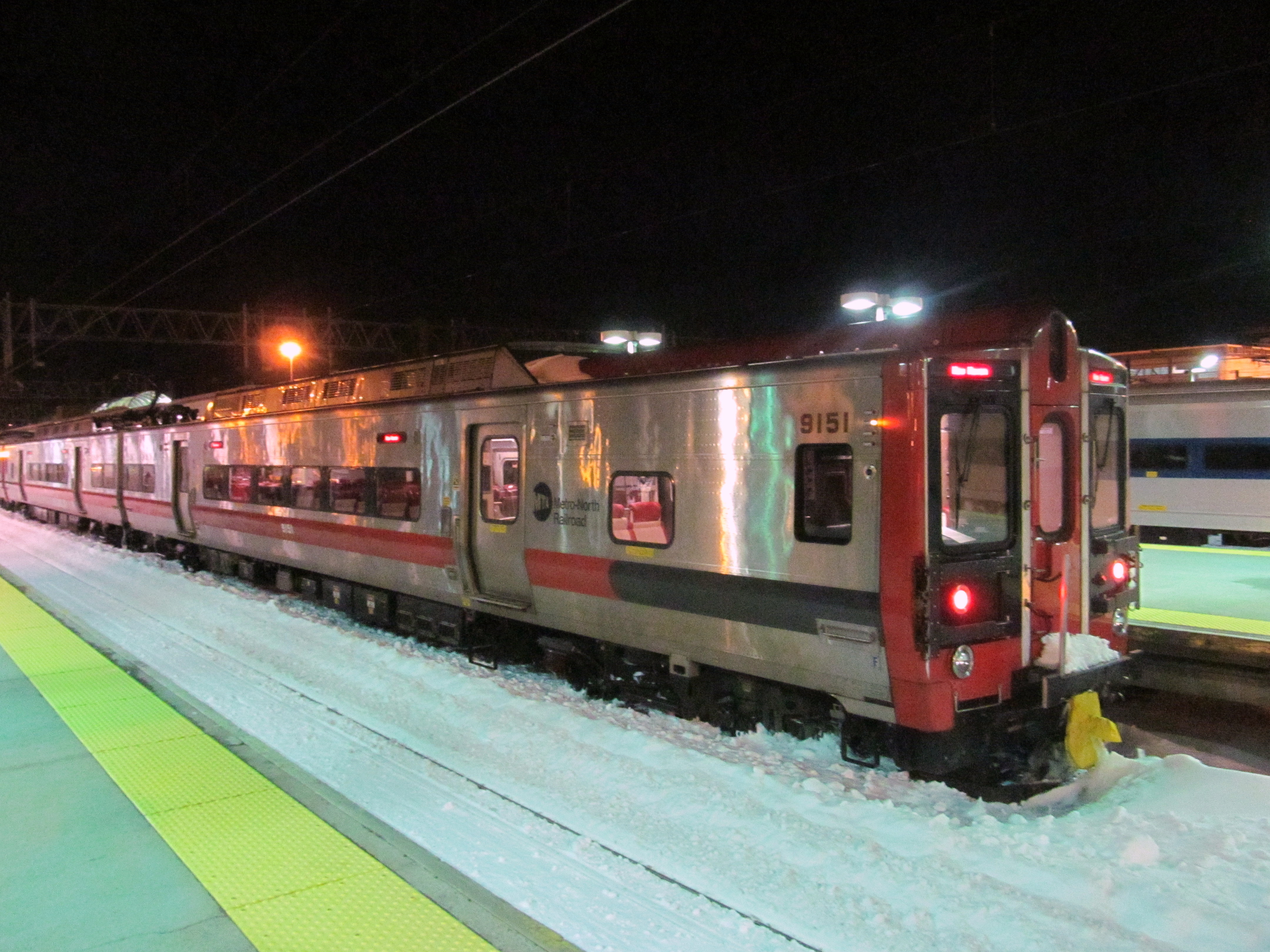 An M8 railcar in the snow at New Haven Union Station after the February 2013 snowstorm